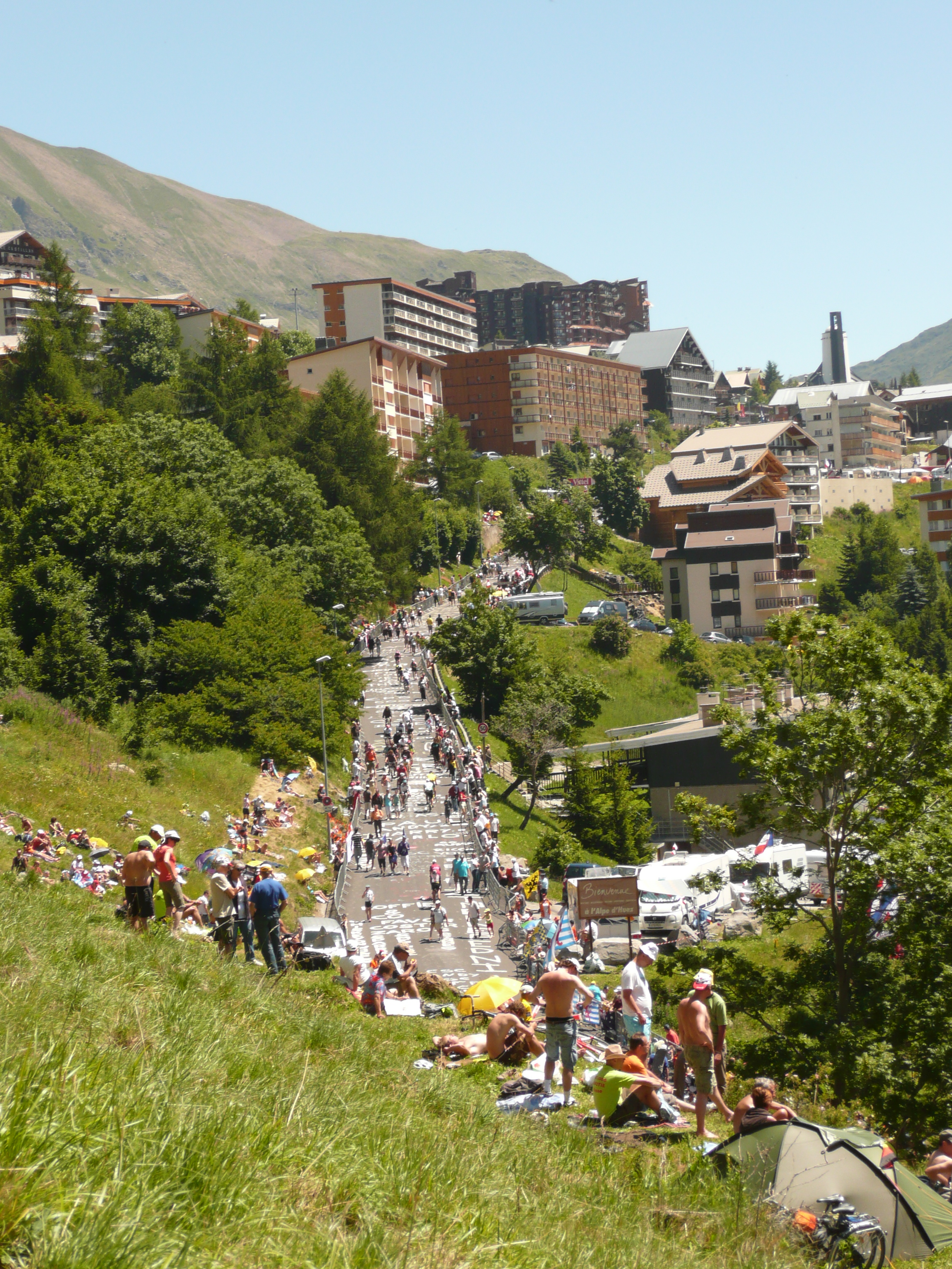 View at Alpe d'Huez before arrival of Tour de France 2008